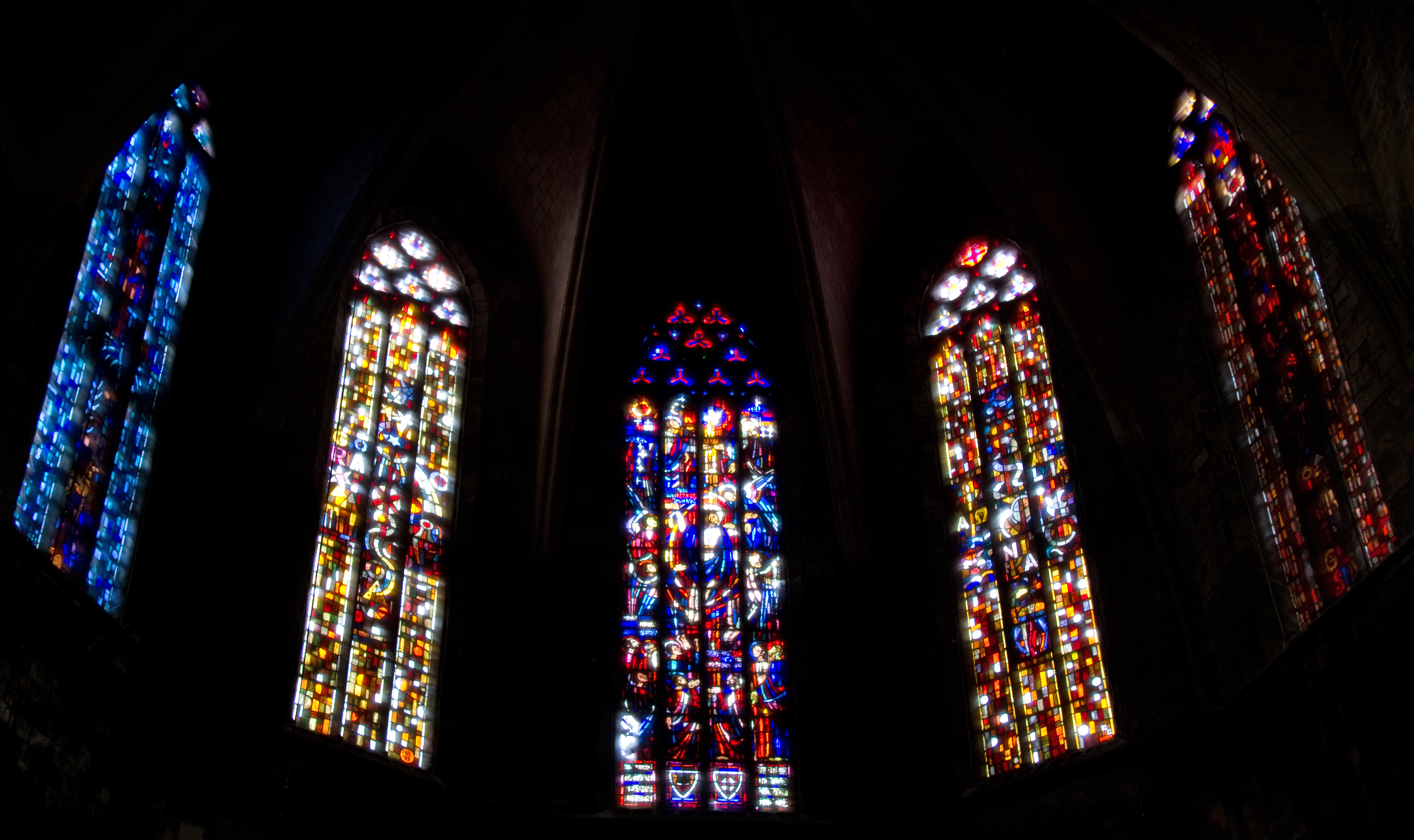 Stained Glass Church of Santa Maria del Pi Barcelona 3